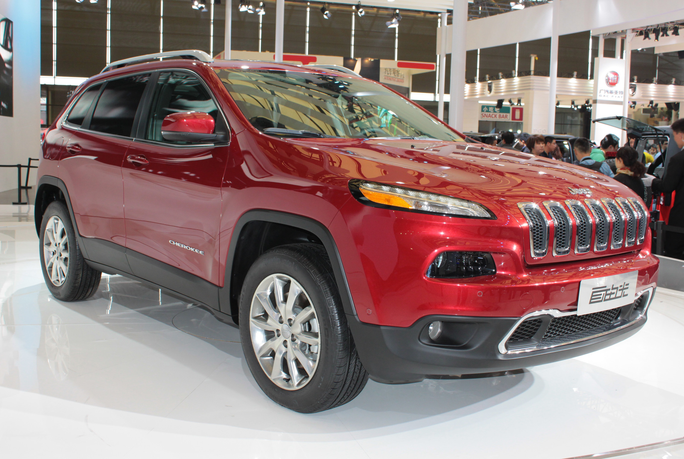 Jeep Cherokee KL at Auto Shanghai 2013